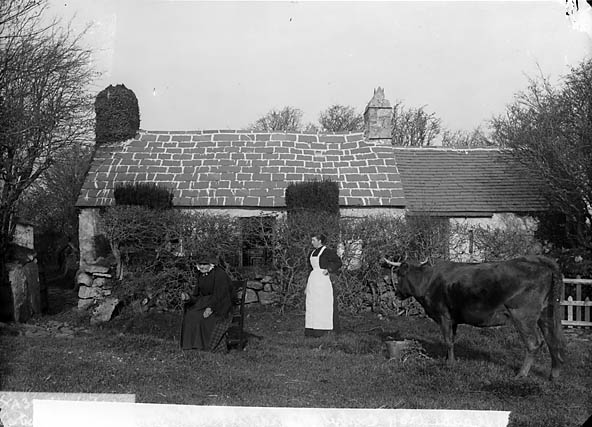 1 negative : glass, dry plate, b&w ; 12 x 16.5 cm.